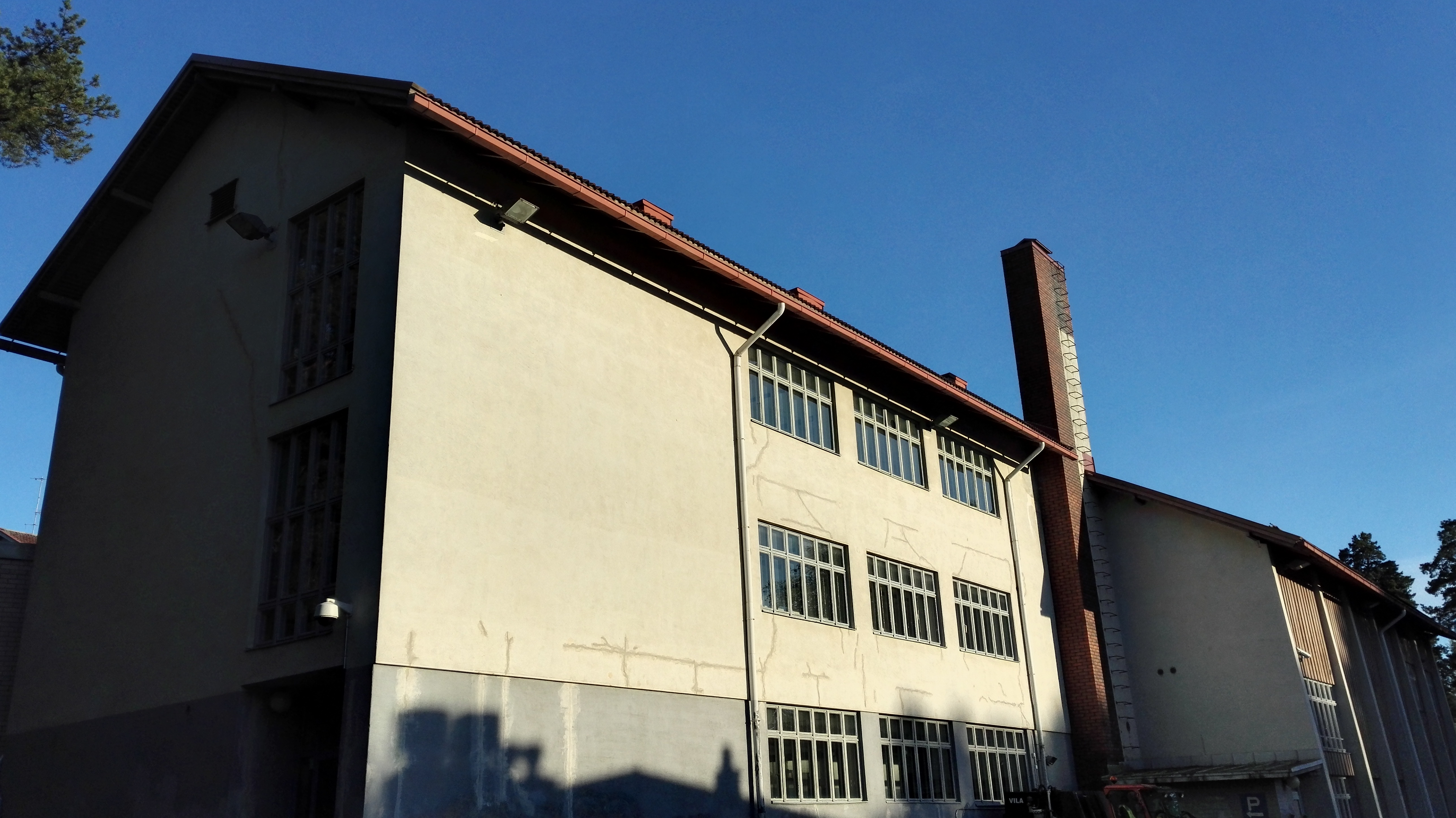 Viherlaakson koulu ja lukio is a school in Espoo.